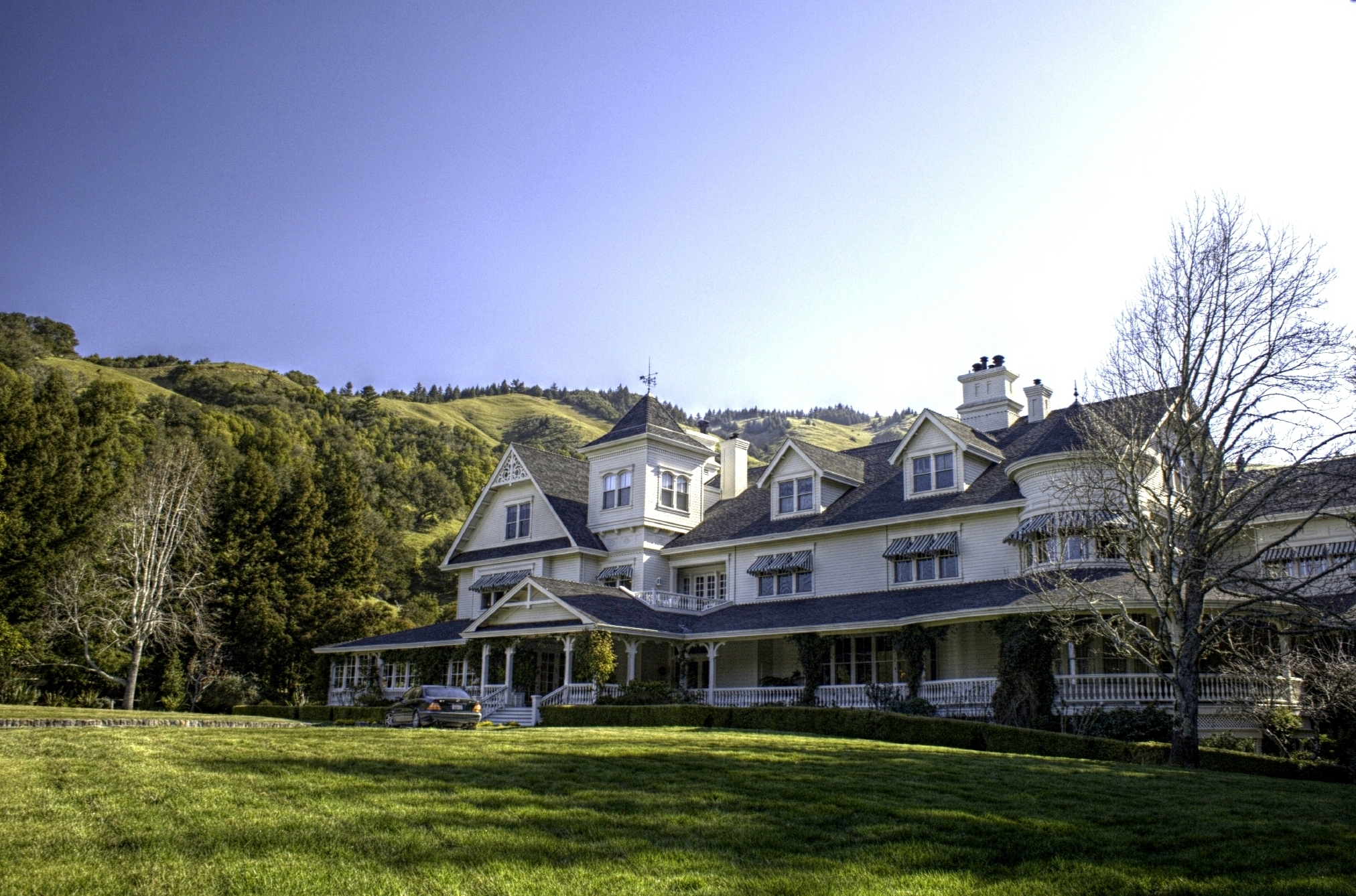 This is the main house at Skywalker Ranch where George Lucas works.